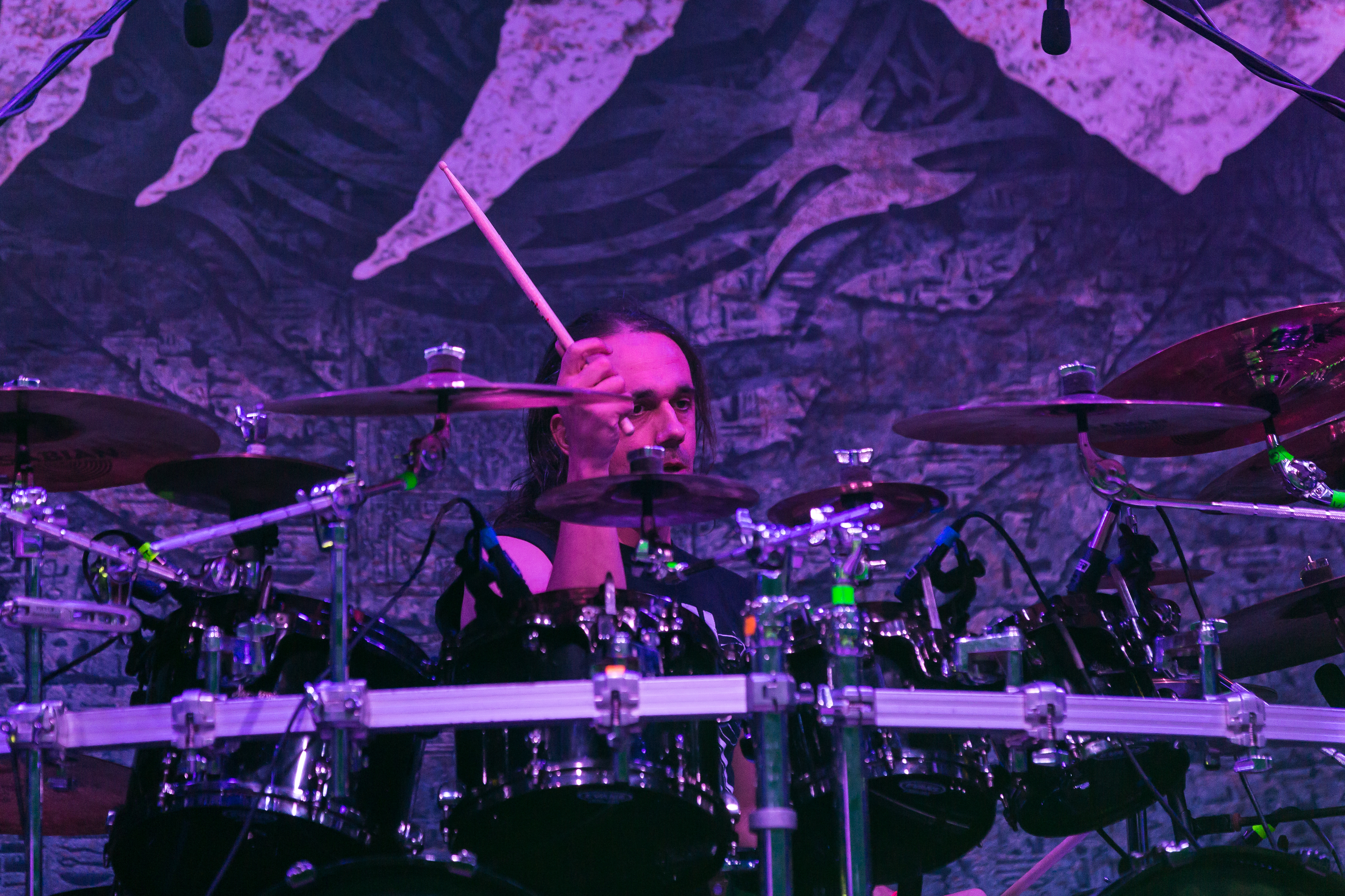 The American technical death metal band Nile at the Party.San Metal Open Air 2017 in Obermehler-Schlotheim/Germany.